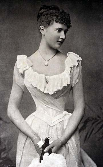 Lady Southampton wearing a ball gown.